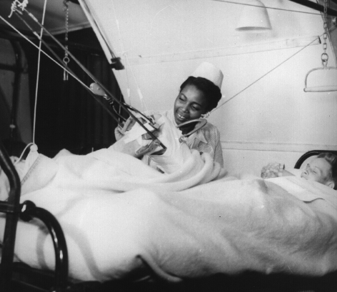 U.S. Army nurse Lt. Florie E. Gant tends to a young German POW patient that had undergone extensive orthopedic surgery for a serious leg injury. An U.S. military hospital somewhere in England.